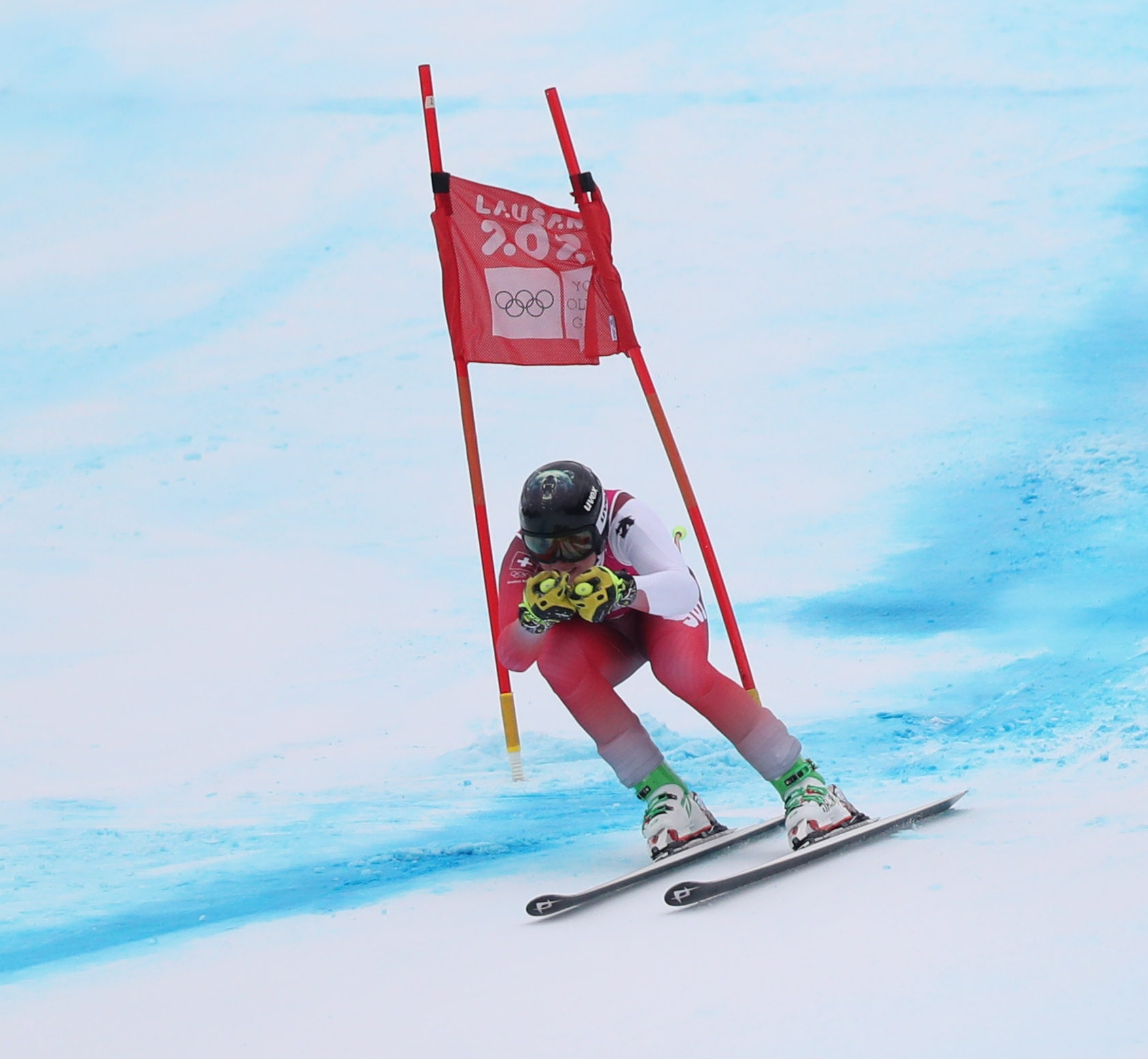 Men's Super G at the 2020 Winter Youth Olympics in Lausanne